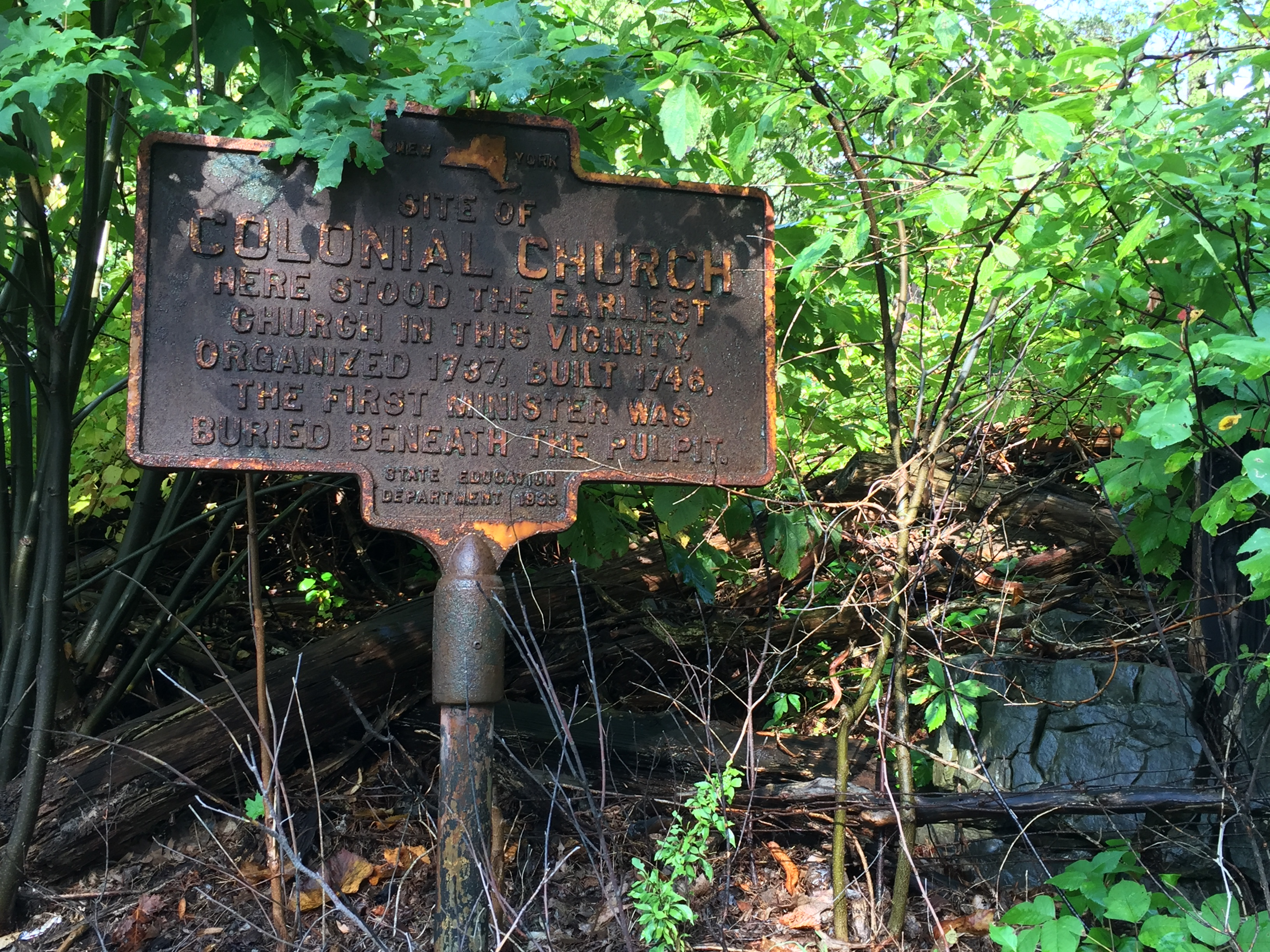 New York State historical marker for the site of a Colonial church in Marbletown, NY